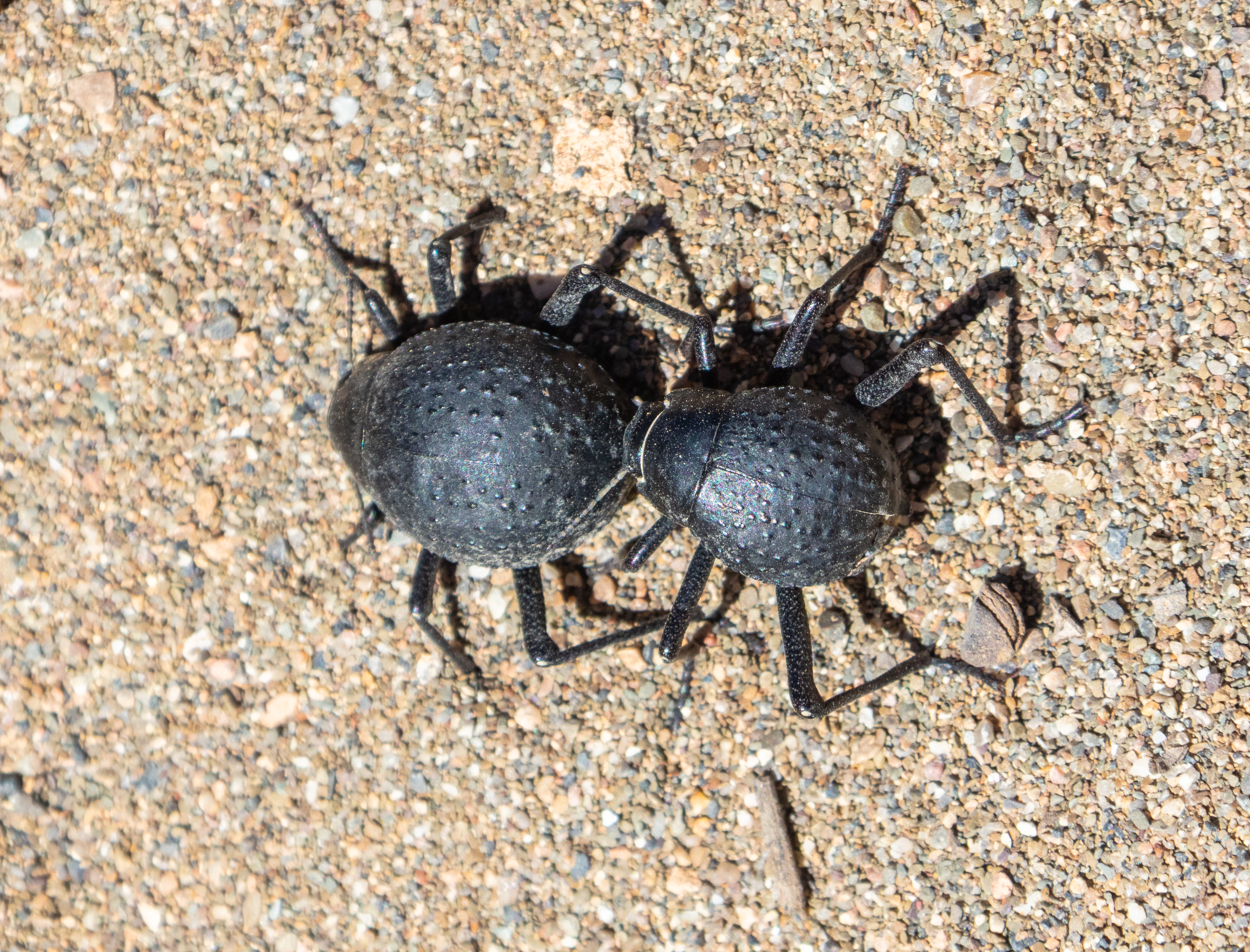 Namib desert beetle (Stenocara dentata), Sossusvlei, Namibia